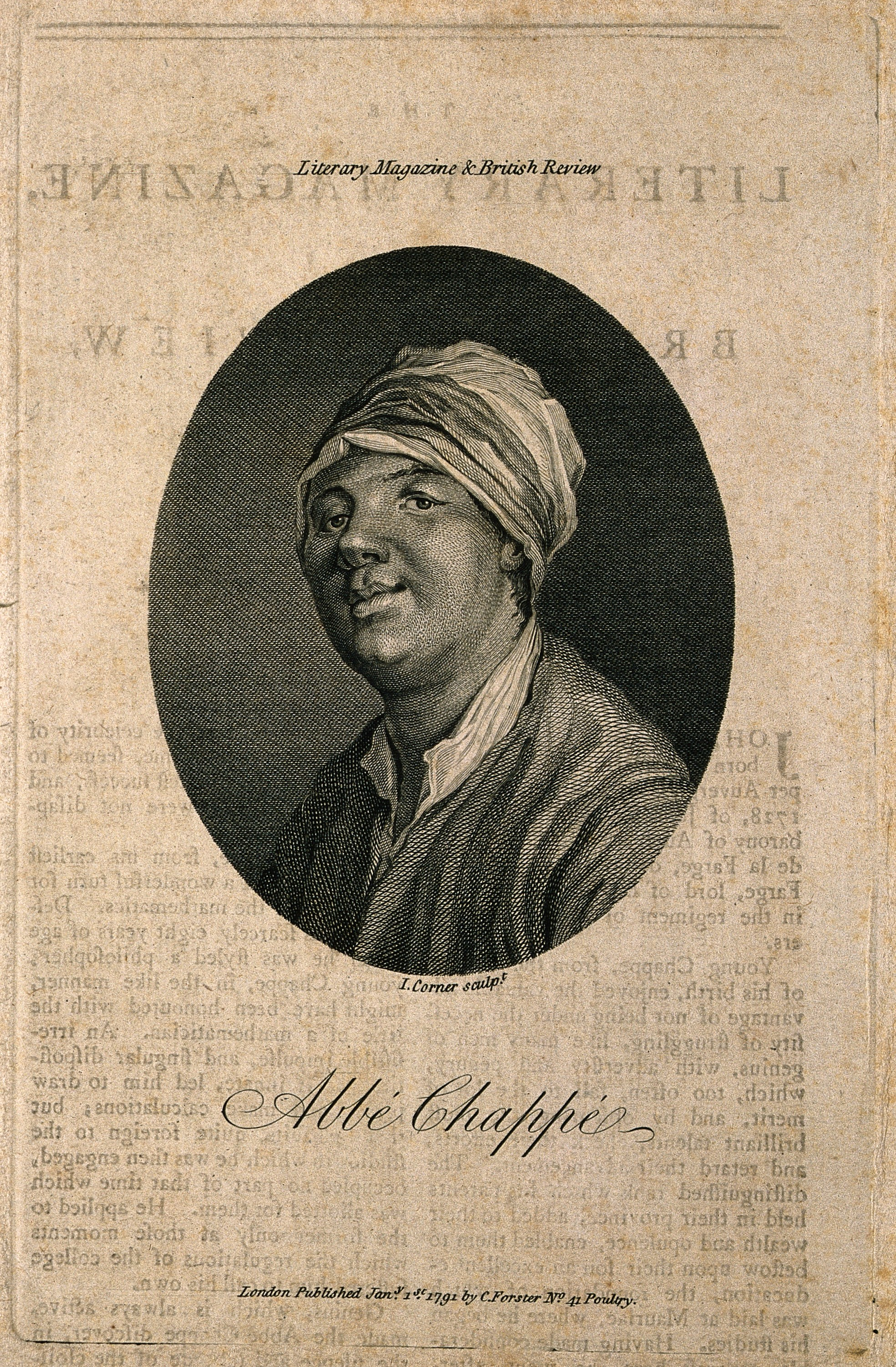 Jean Chappé d'Auteroche. Line engraving by J. Corner, 1791. Iconographic Collections Keywords: portrait prints; chappbe d'auteroche, jean, 172; engravings; Jean Chappé d'Auteroche